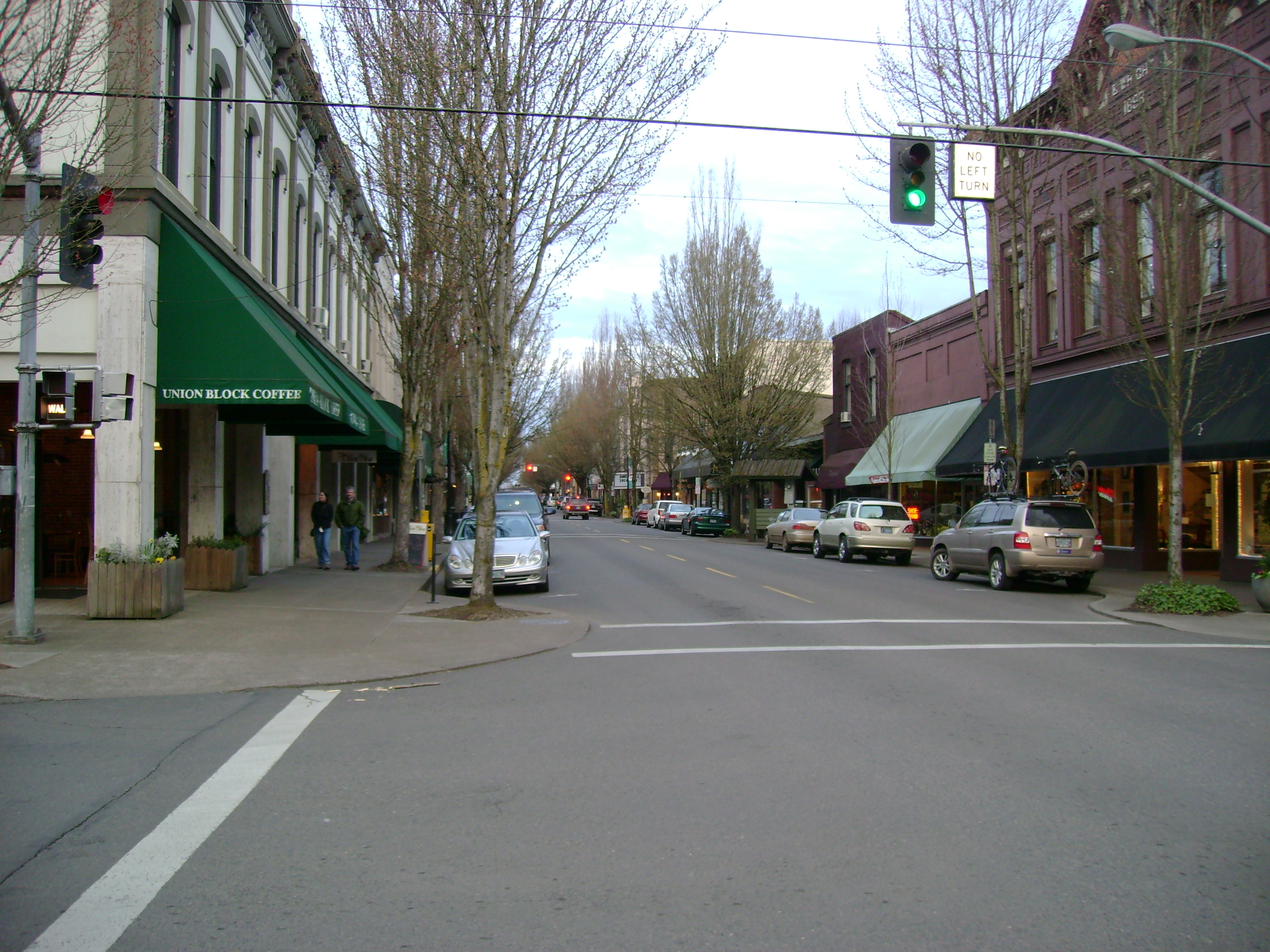 a downtown street in McMinnville